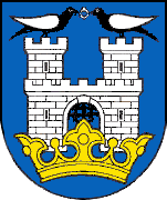 Coat of arms of Michalovce, Slovakia